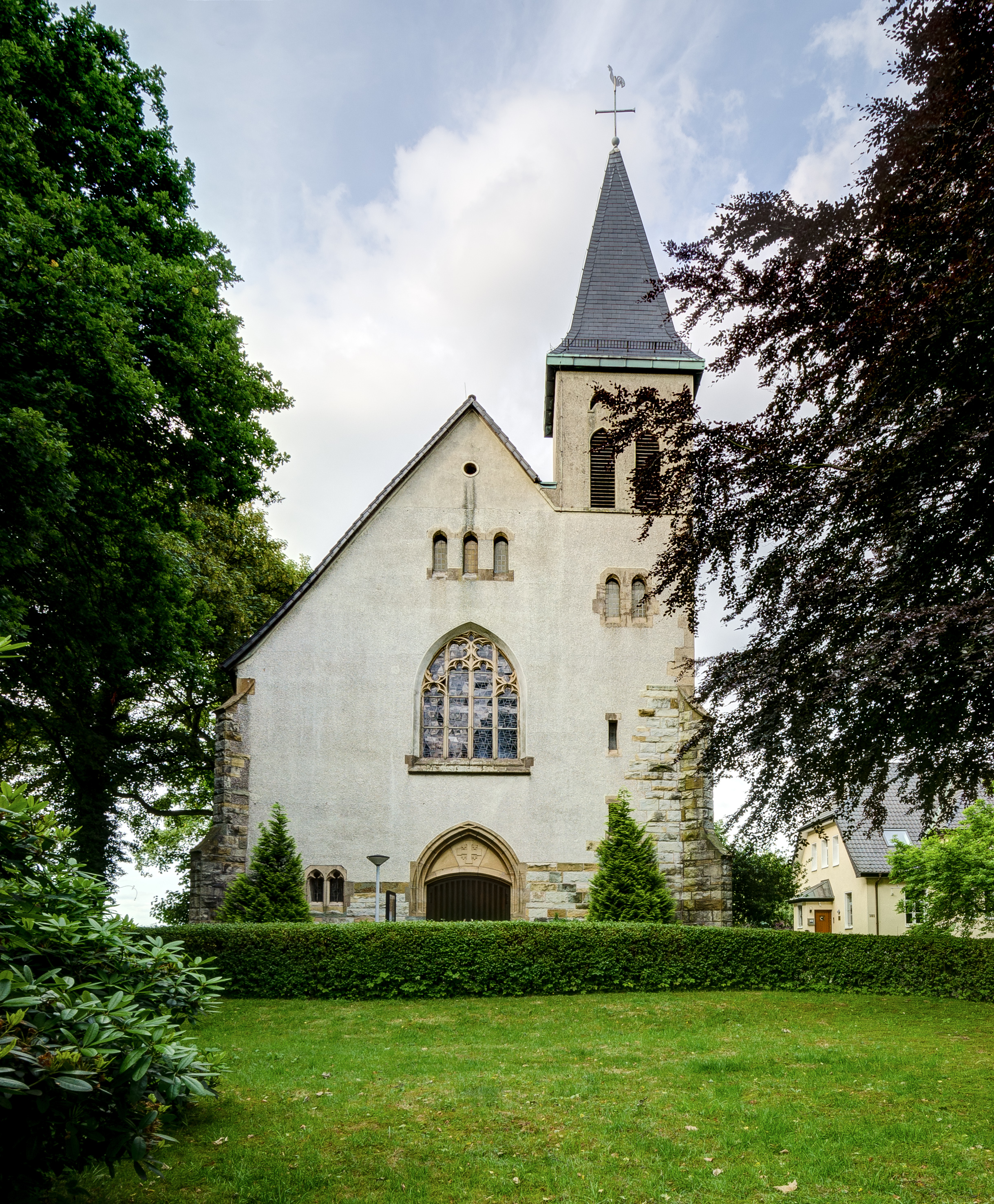 Catholic Herz-Jesu Church in Bochum Sevinghausen